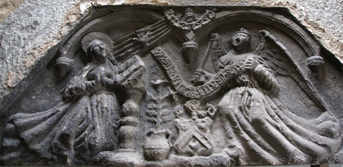 Dunfermline Palace, Dunfermline, Fife, Scotland - annunciation stone